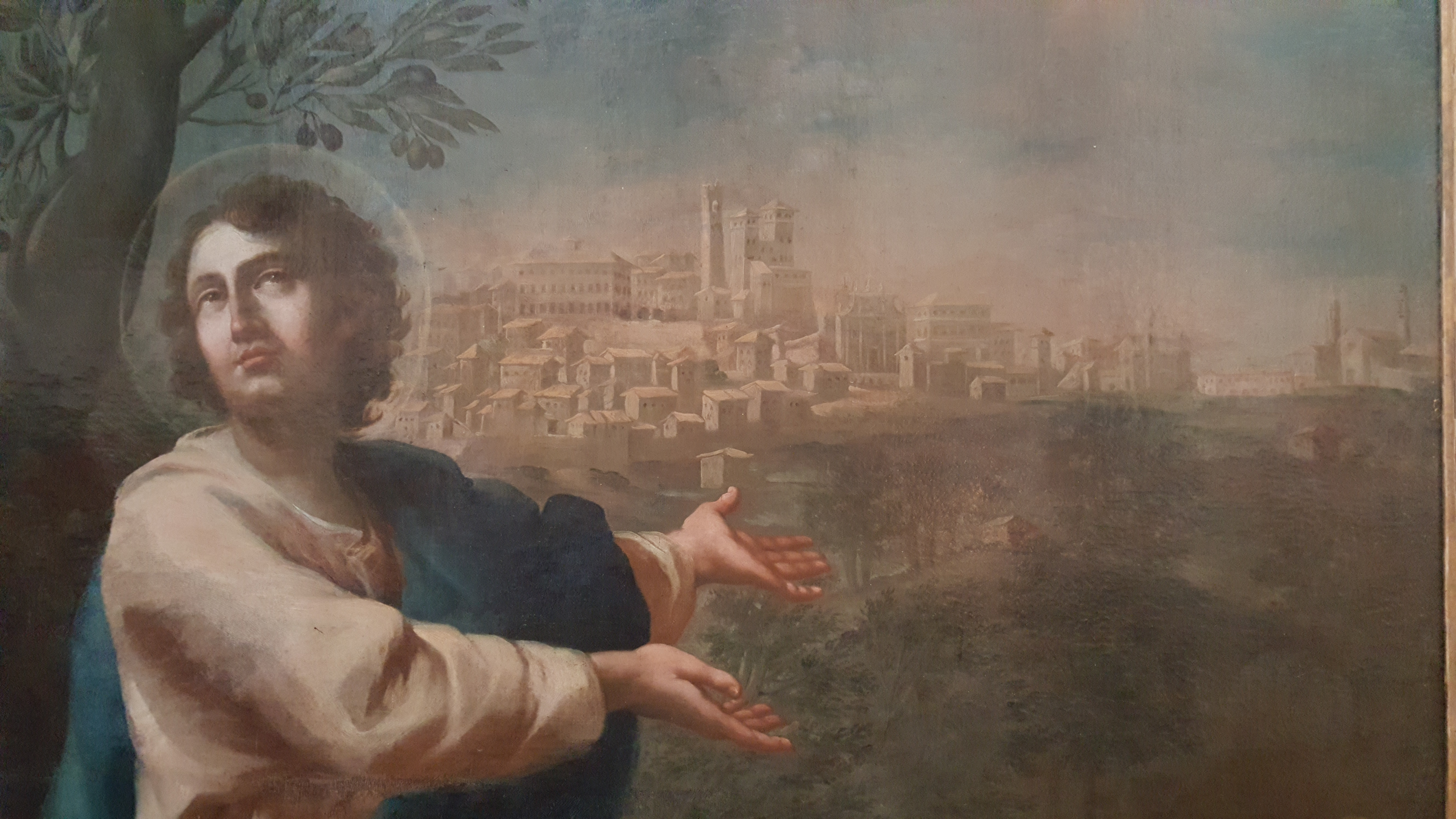 This is a photo of a monument which is part of cultural heritage of Italy.